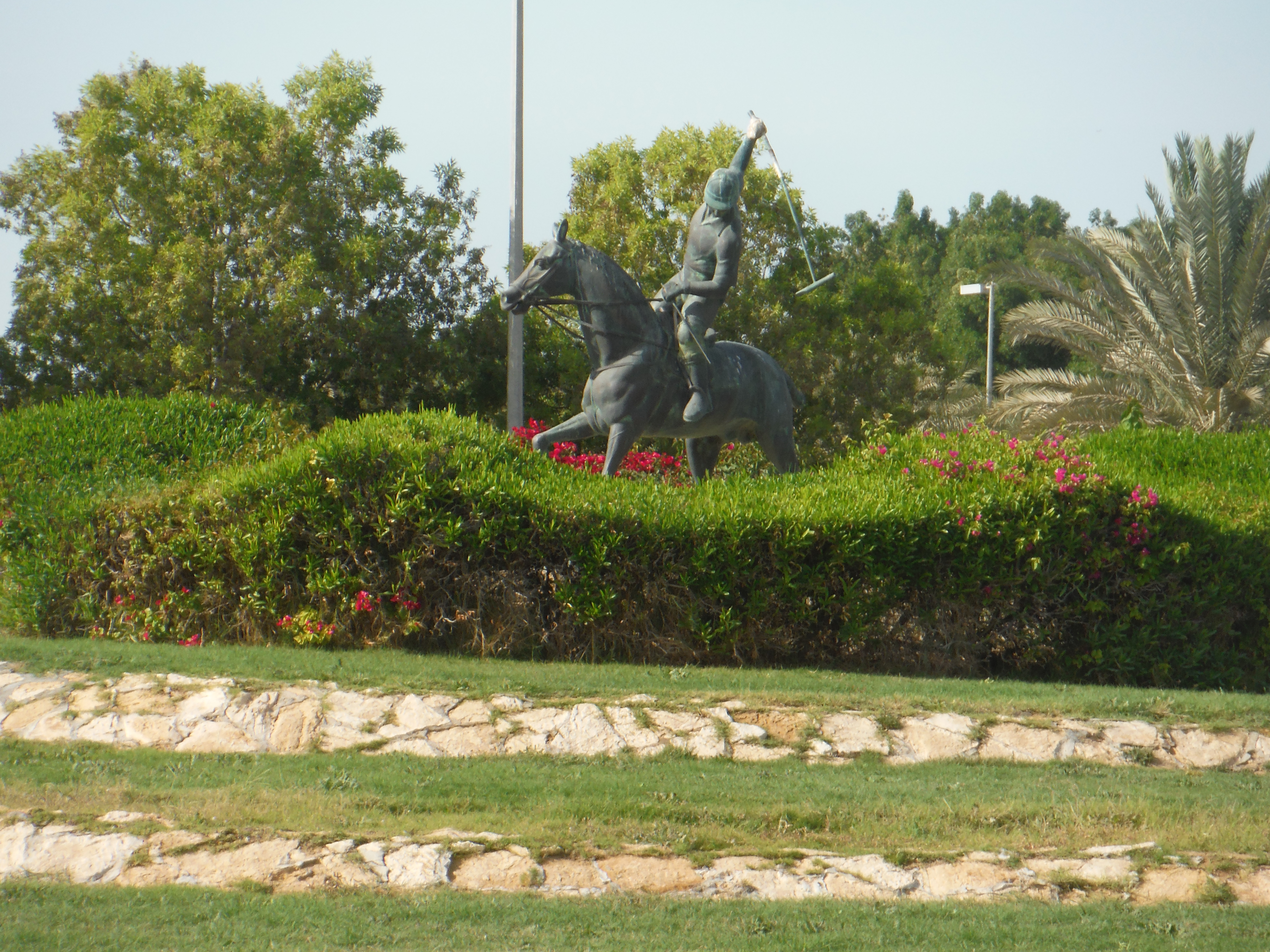 Monument at Ghantoot Racing and Polo Club